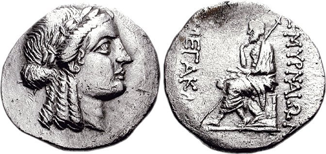 IONIA, Smyrna. Circa 75-50 BC. AR Drachm (3.89 g, 12h). Homereia type. Megakles, magistrate. Head of Apollo left, wearing laurel wreath / Homer seated right, holding scroll; scepter behind, MEGAKL[HS] to left. Milne, Silver - (obv. die z); cf. Milne, Autonomous 379-380 (for magistrate), otherwise unpublished.